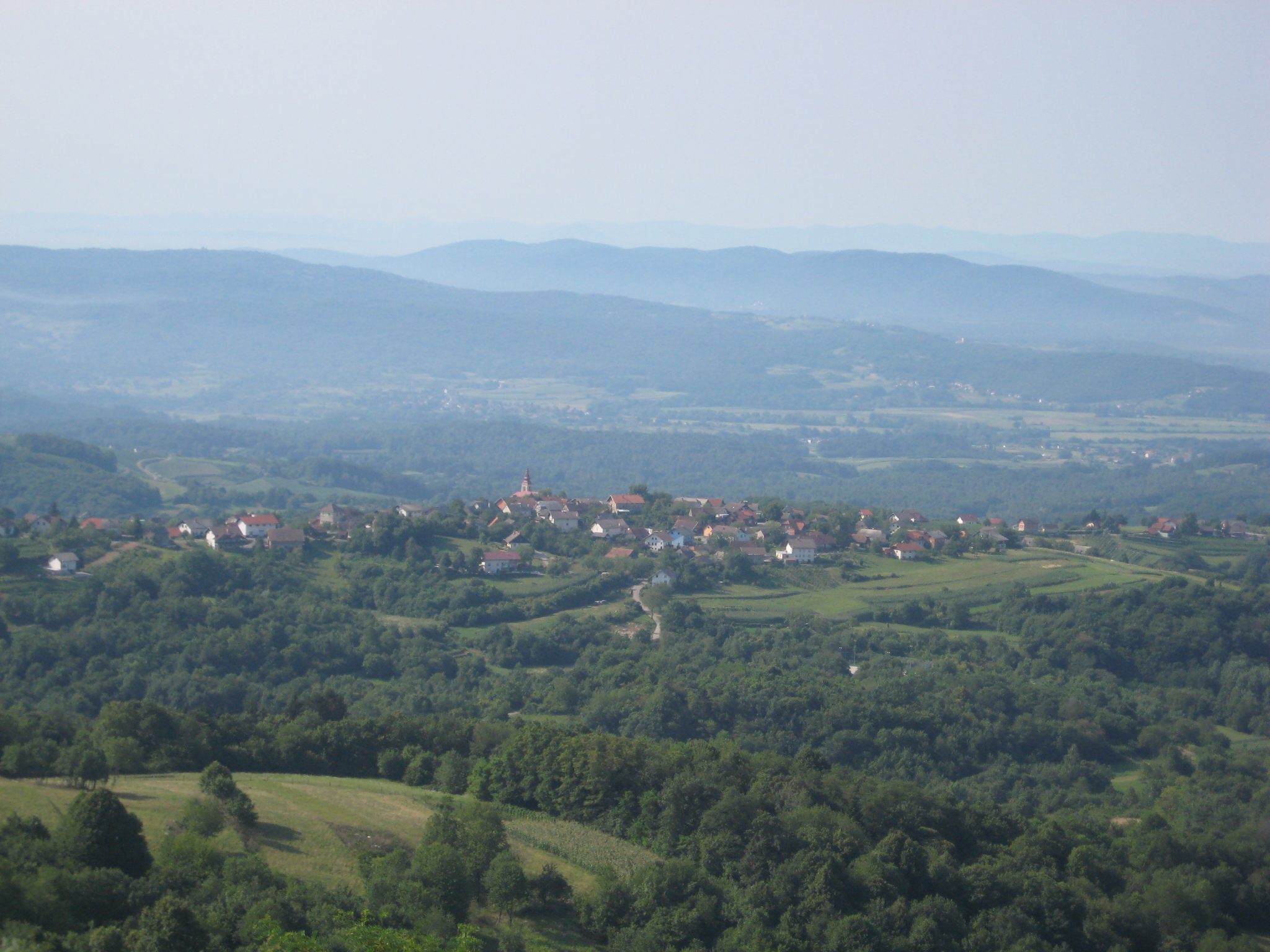 Radovica, village in Slovenia